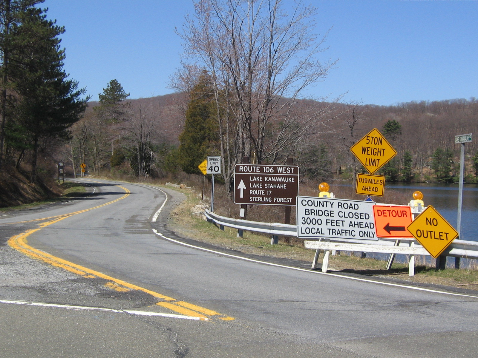 Westbound Orange County Road 106 at Kanawauke Circle, which is shared by Seven Lakes Drive in Harriman State Park.